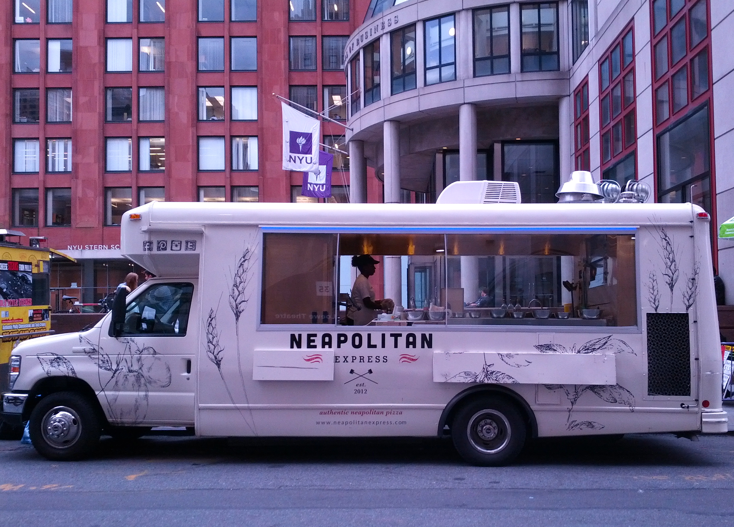 Neapolitan Express food truck, 2013-09-16